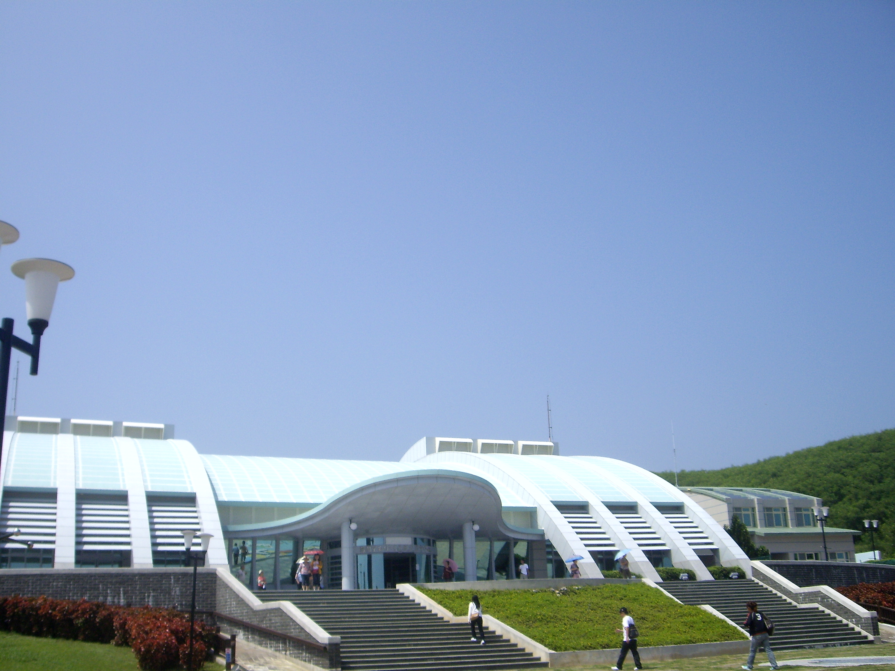 Wangan Green Turtle Tourism Conservation Center